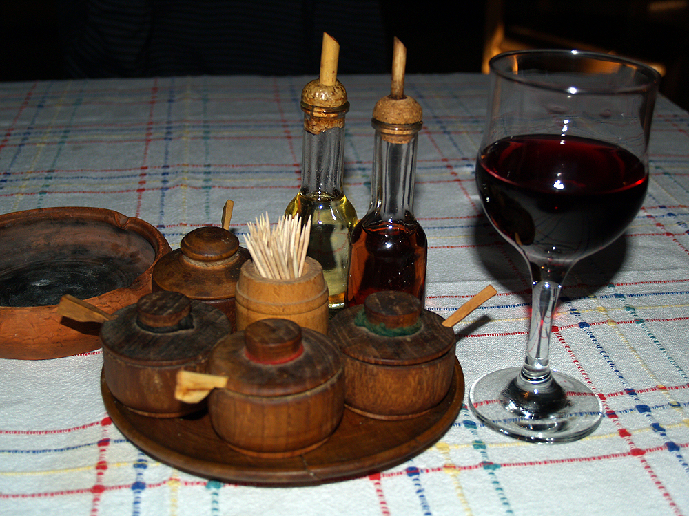 A traditional Bulgarian pub table setting